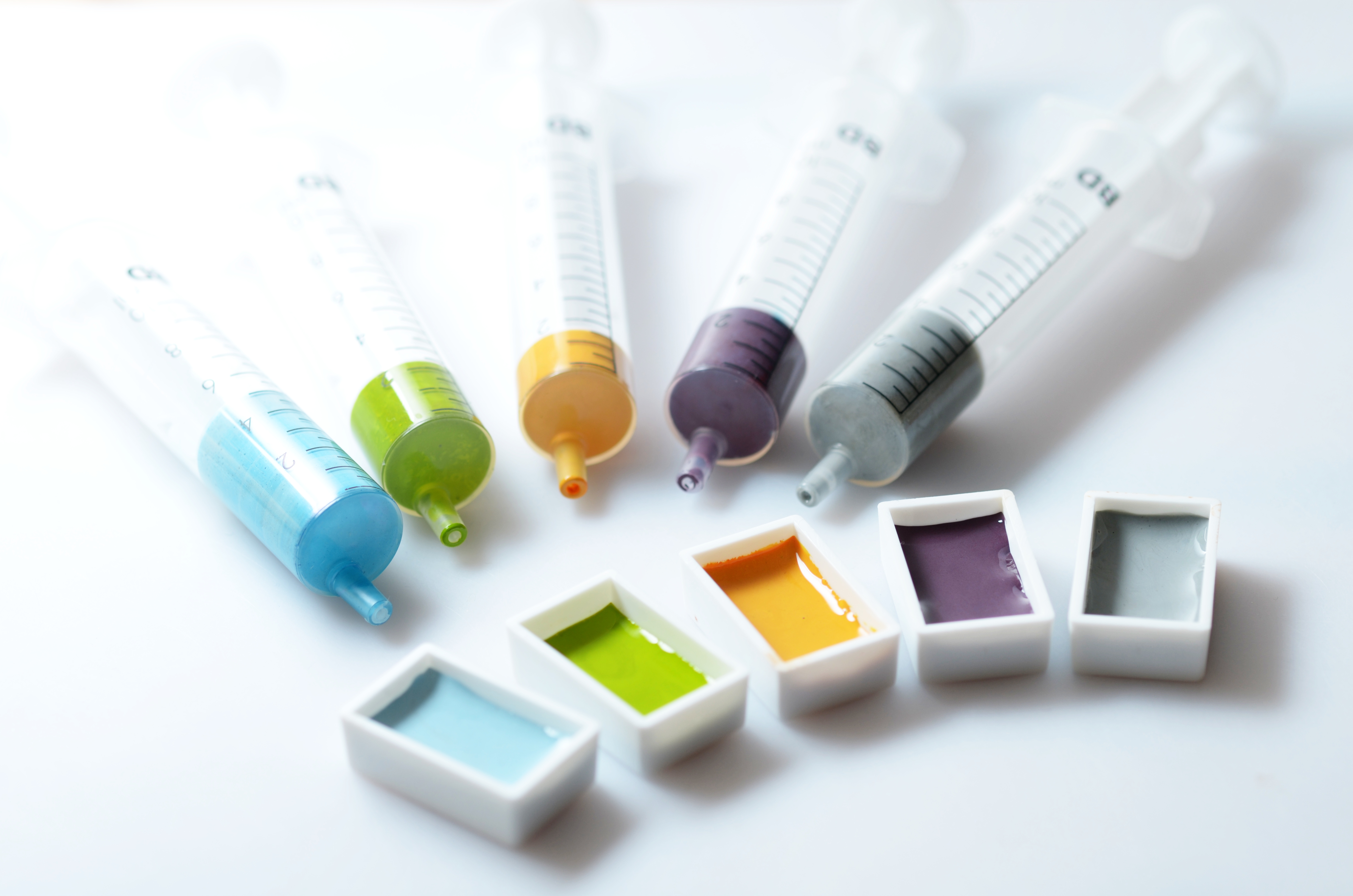 Water paint. The liquid mixture, mainly consisting of Gummi arabic, pigment, and water, is dried in the saucers layerwise.